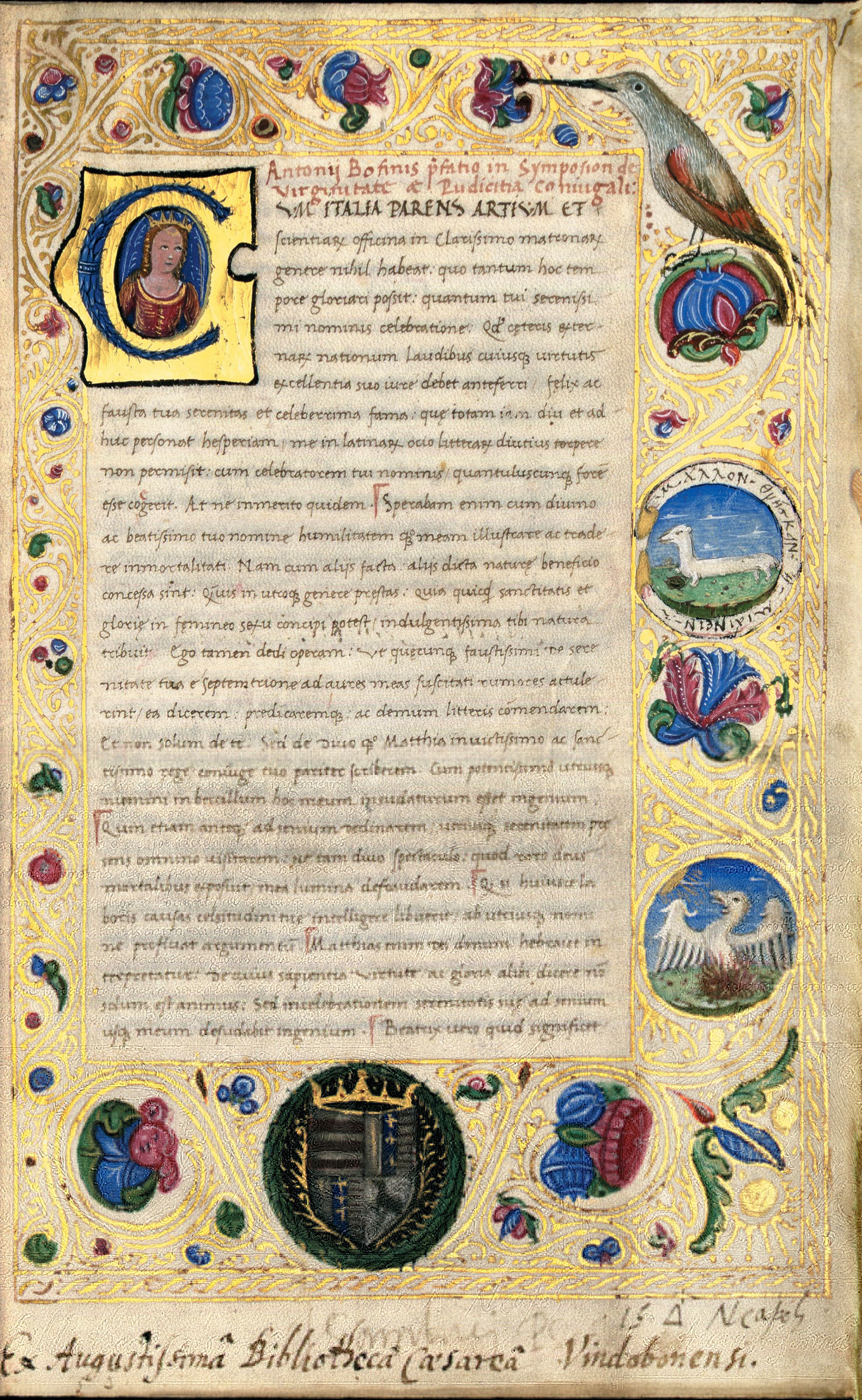 Symposion de Virginitate et Pudicitia Coniugali by Antonio Bonfini